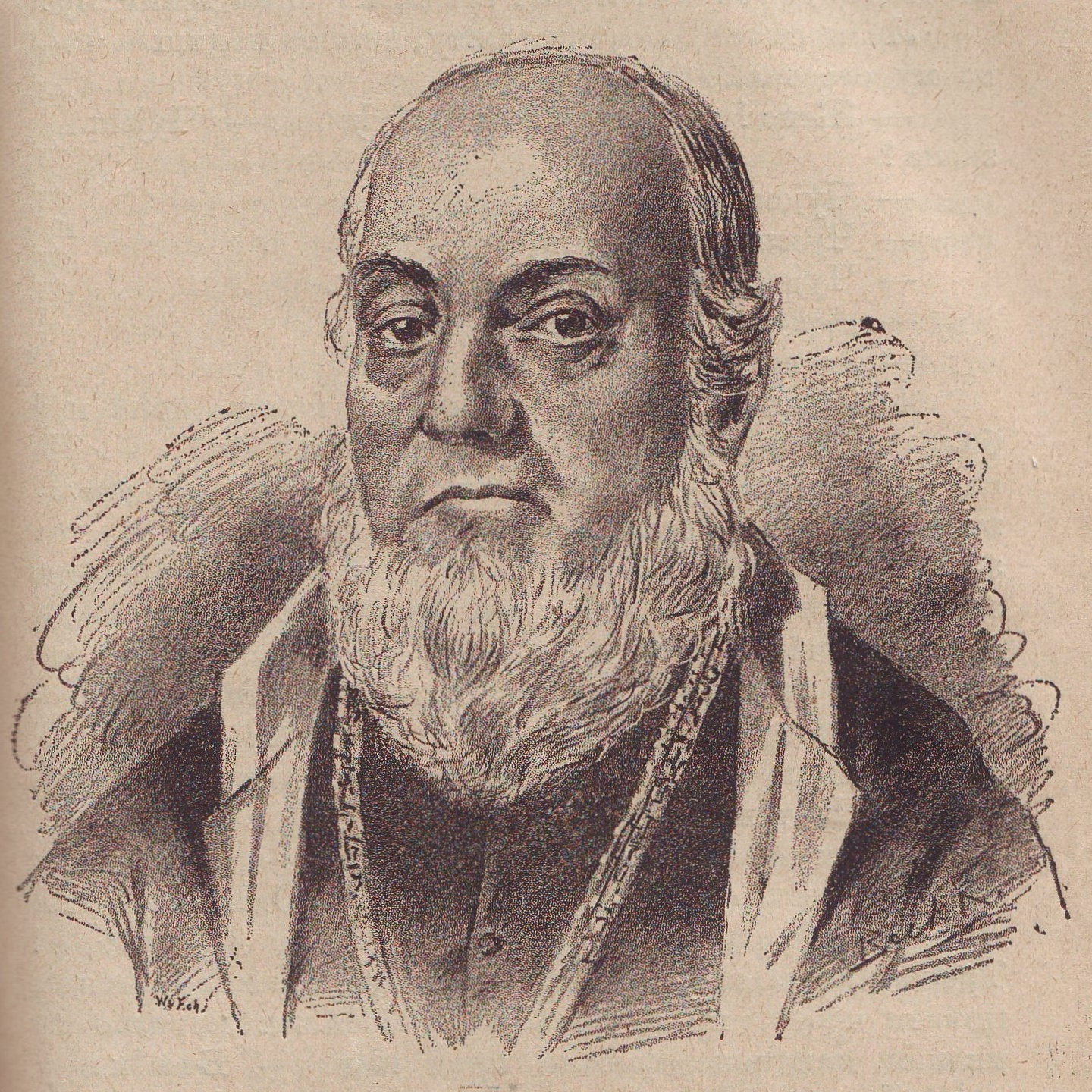 Pavle Kenđelac (1766-1834), Serbian archimandrite and theologian. Taken from the 1896 edition of the Serbian Velika Kikinda illustrated calendar. Srpski (latinica): Pavle Kenđelac (1766-1834), srpski arhimandrit i teolog. Preuzeto iz izdanja Srpskog Velikokikindskog ilustrovanog kalendara za 1896. godinu.